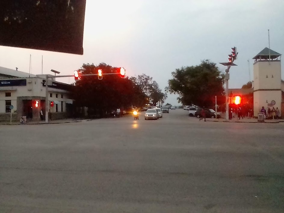 High court intersection Masvingo This is an image with the theme "Africa on the Move or Transport" from: Zimbabwe